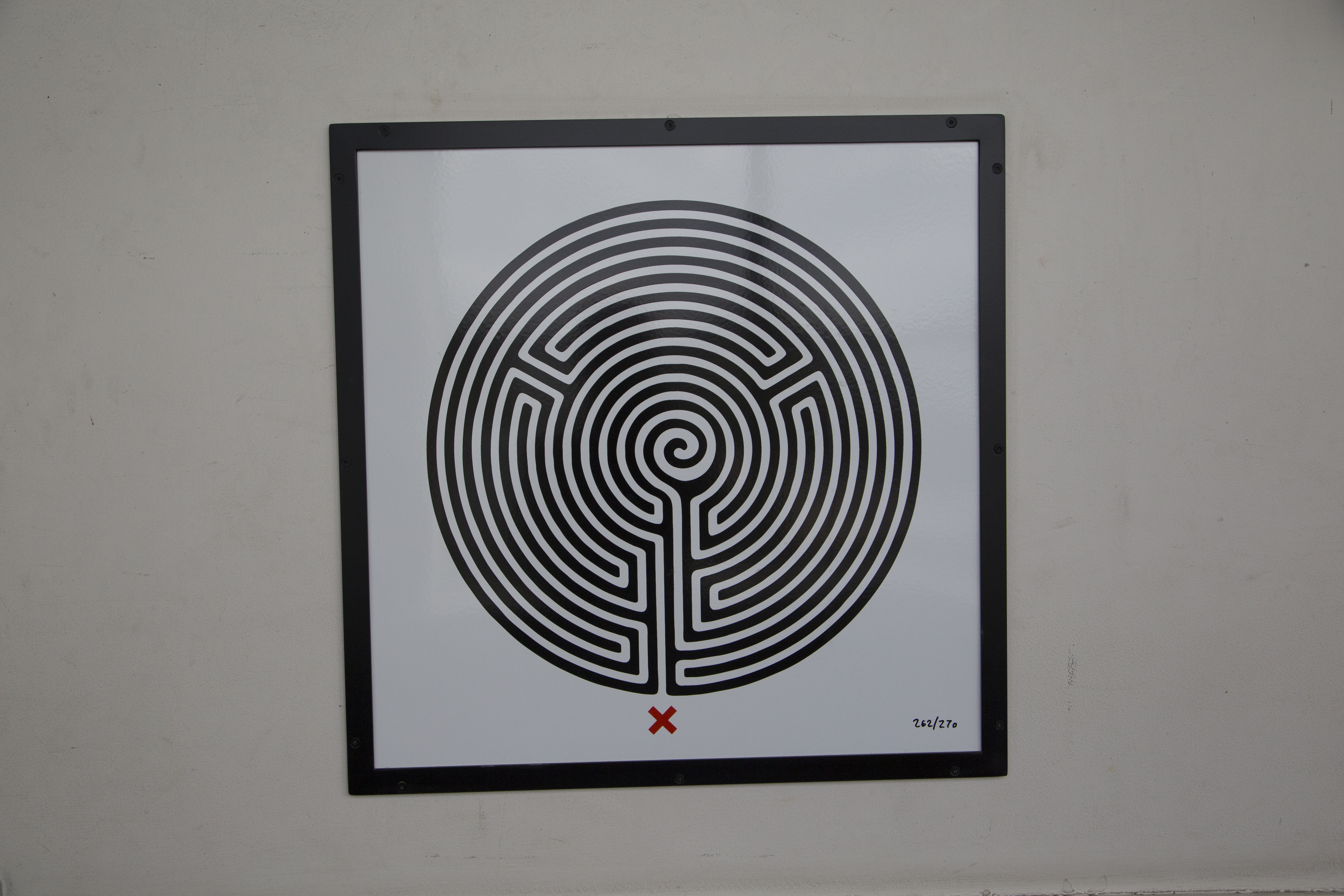 Mark Wallinger's unique Labyrinth installation at Boston Manor station, installed as part of a network-wide art project marking 150 years of the London Underground. Part of the Woodcut family.